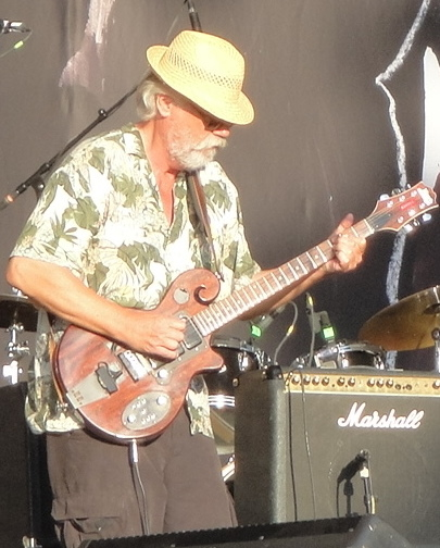 Danish musician and actor Ole Fick during a concert at Valdemars Slot, Tåsinge, Denmark on 10 July 2010 where he backed up Lasse Helner on guitar.